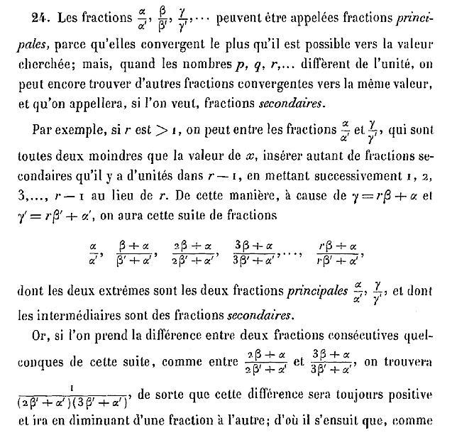 This extract of a page of Lagrange's "Additions au mémoire sur la résolution des équations numériques" from 1770 shows the use of intermediate fractions in the theory of continued fractions.